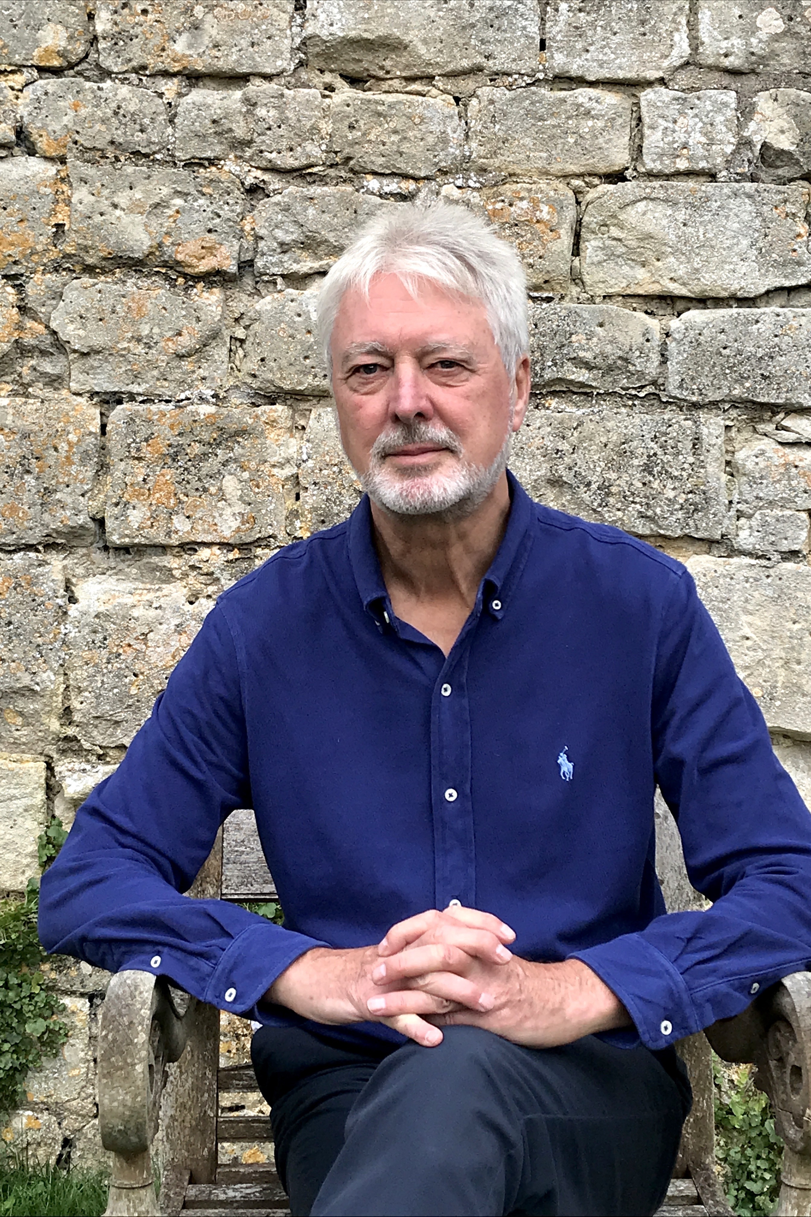 Roger Eatwell at home in 2018.